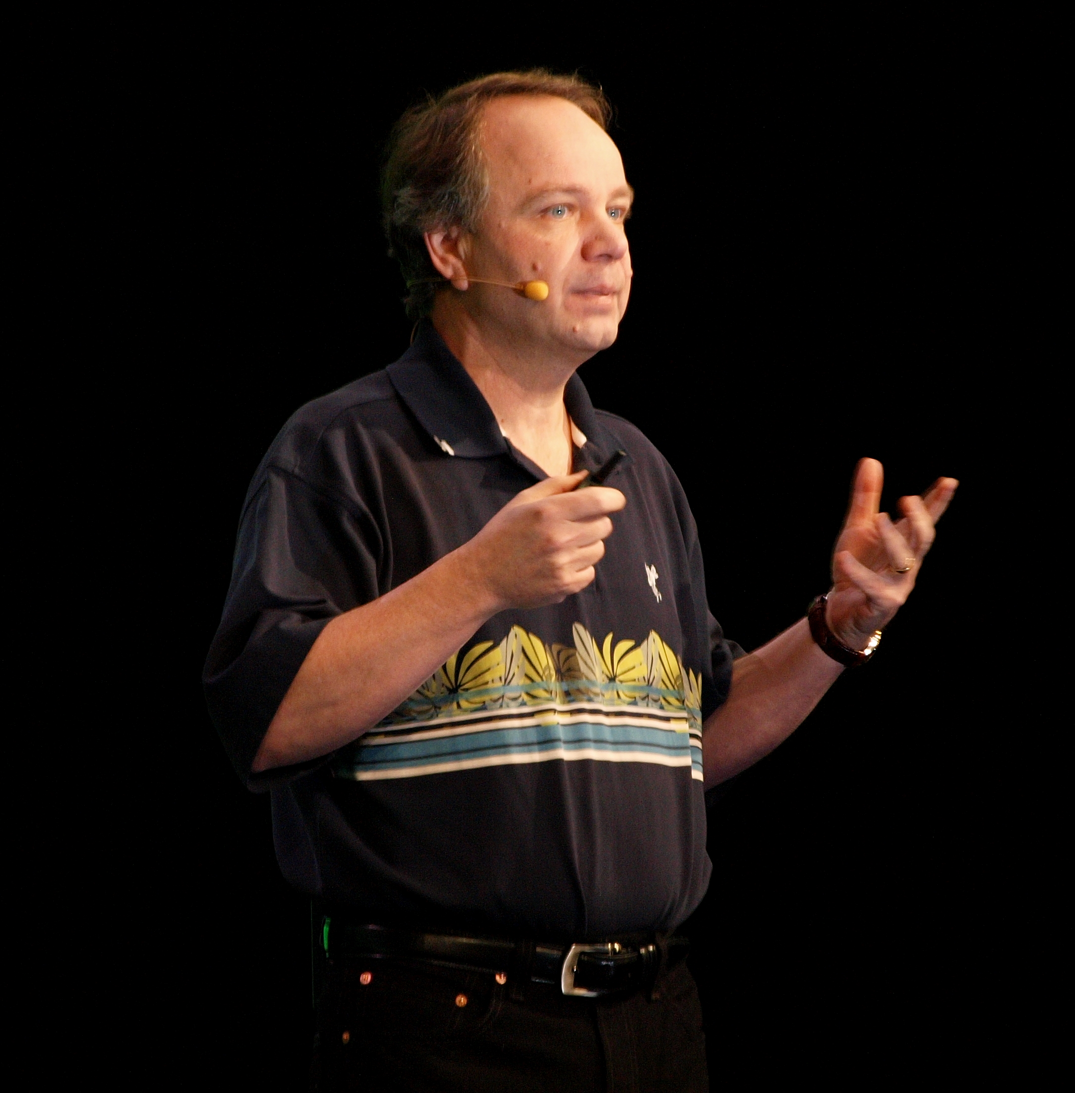 Sid Meier at the Game Developers Conference in 2010 (fourth day), speaking at "The psychology of game design (everything you know is wrong").